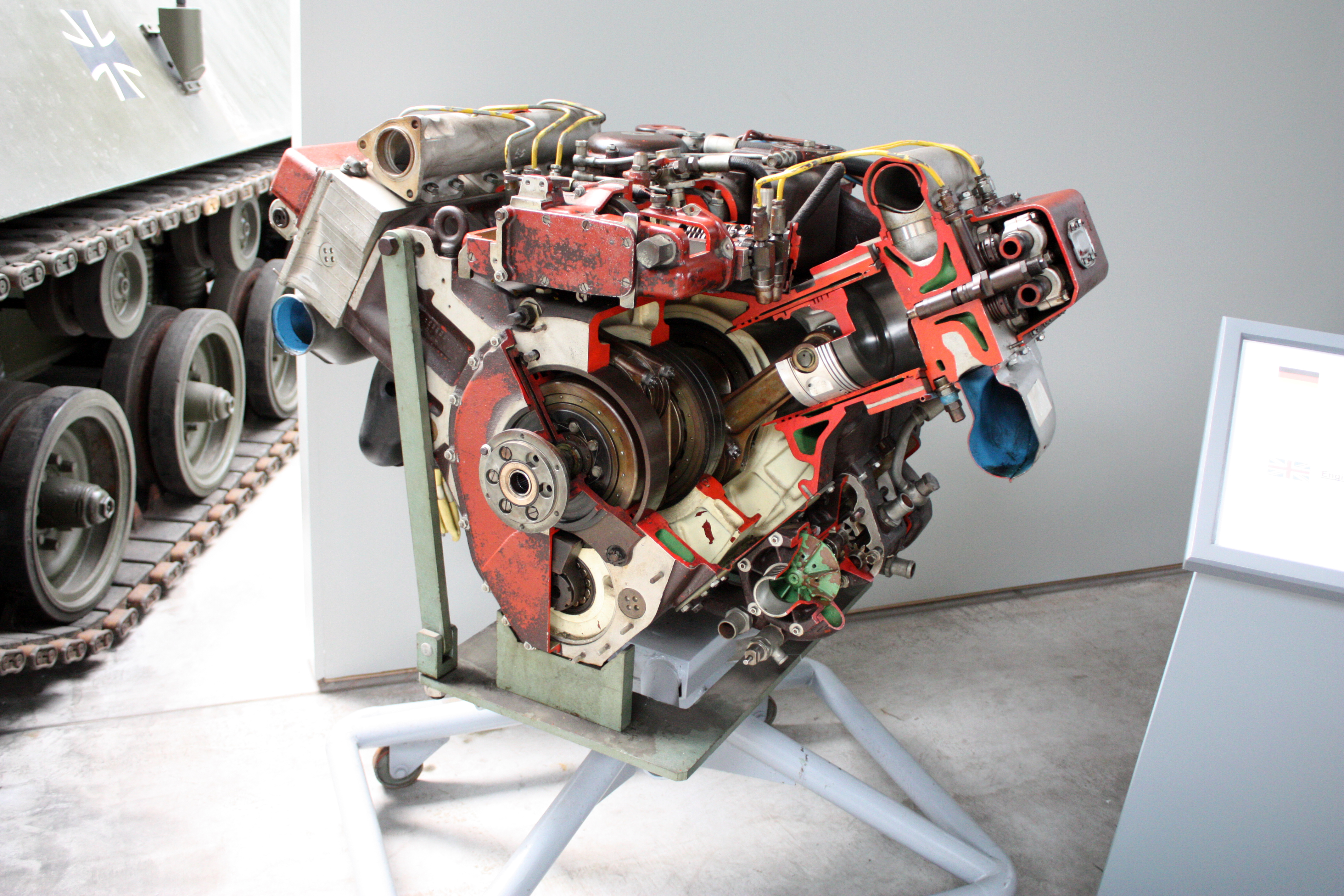 German Tank Museum